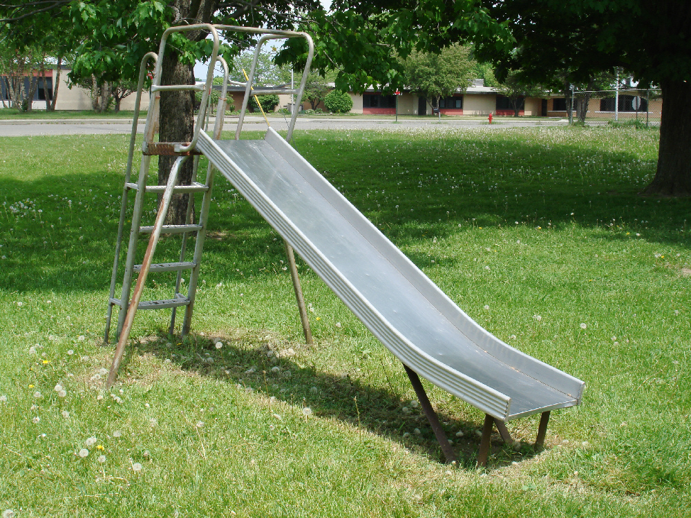 Playground slide, metal